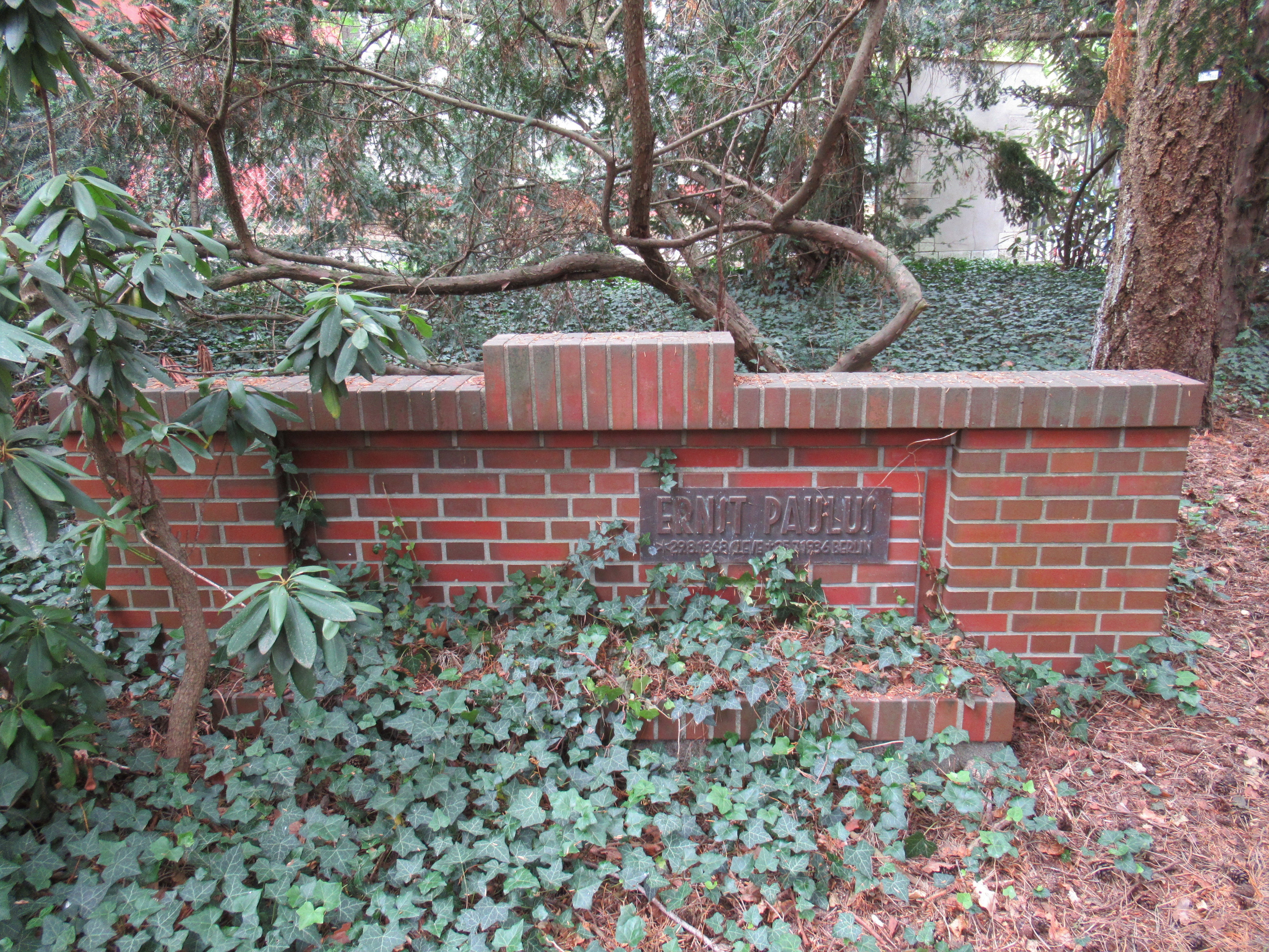 Grave of German architect Ernst Paulus at Waldfriedhof Dahlem in Berlin-Dahlem.